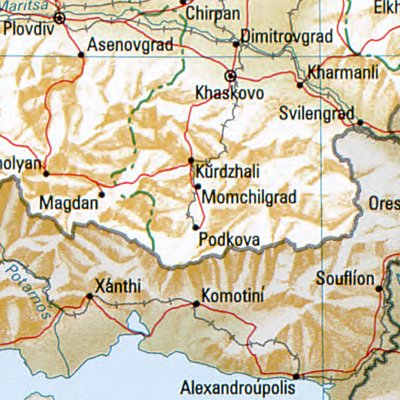 Komotini, crop from CIA map